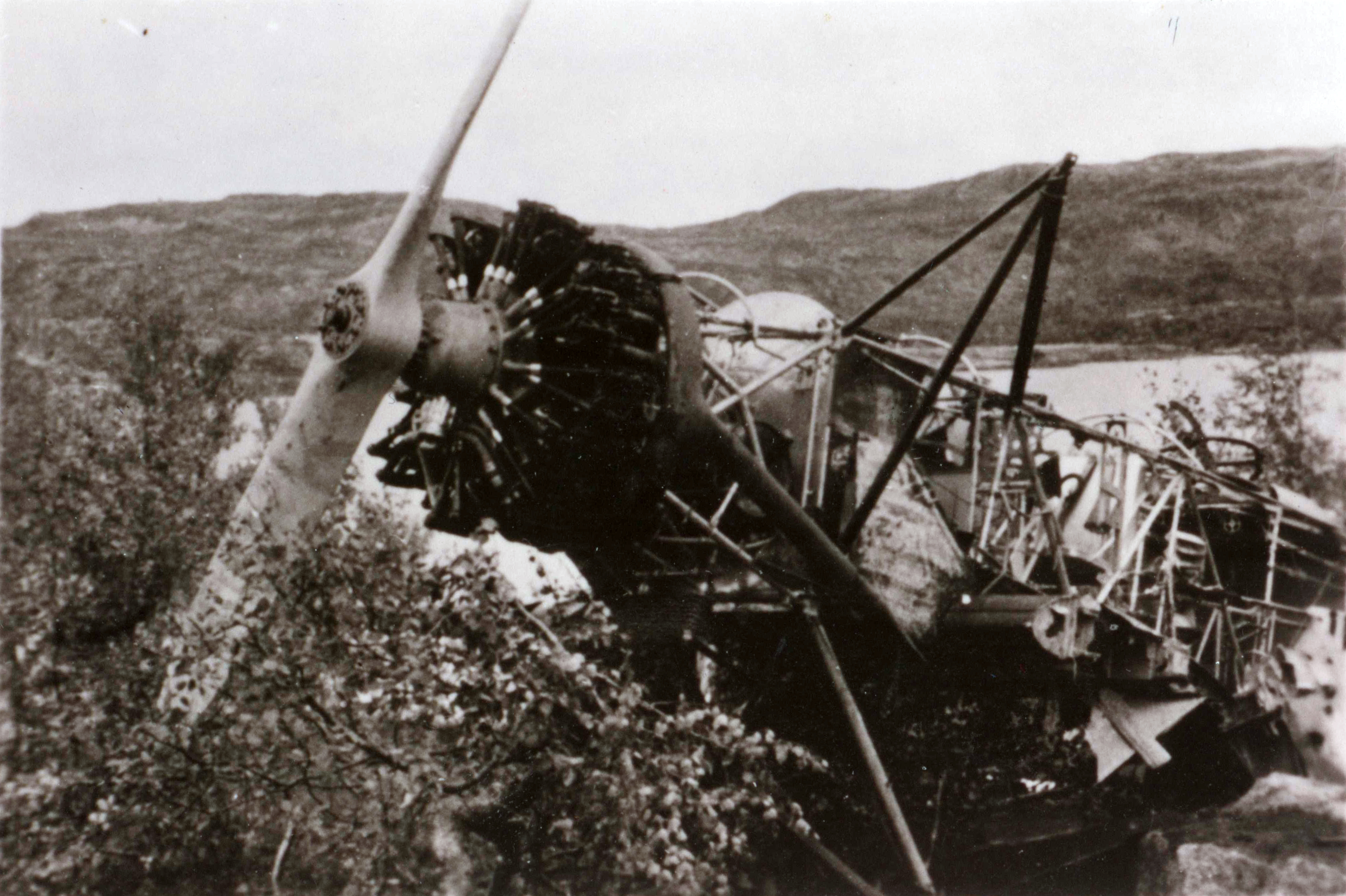 An abandoned Royal Norwegian Air Force Fokker C.V-E at Narvik